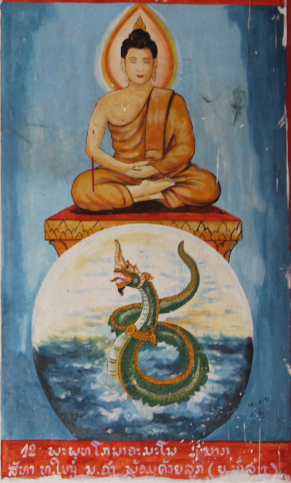 Painting of Konagamana Buddha. Cropped from and edited File:Wat Ho Xiang - Luang Prabang 20110415-04.JPG